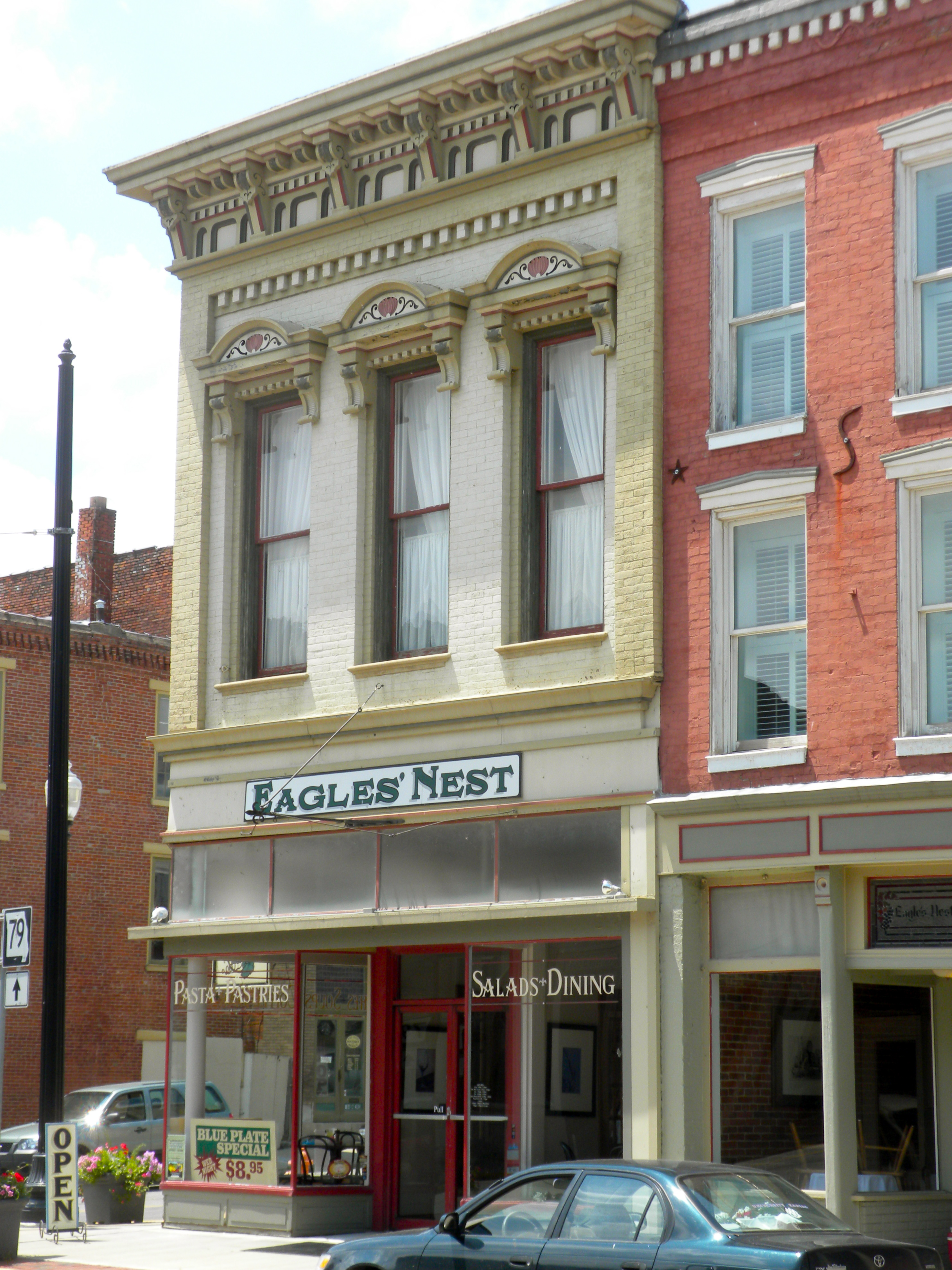 The Eagle's Nest, a restaurant between Main and third on Georgia Street in the town of Louisiana, Missouri (south of Hannibal, MO). In the Georgia Street Historic District which has been on the NRHP since May 6, 1987. The Historic District is roughly along Georgia St. between Main and Seventh Sts.